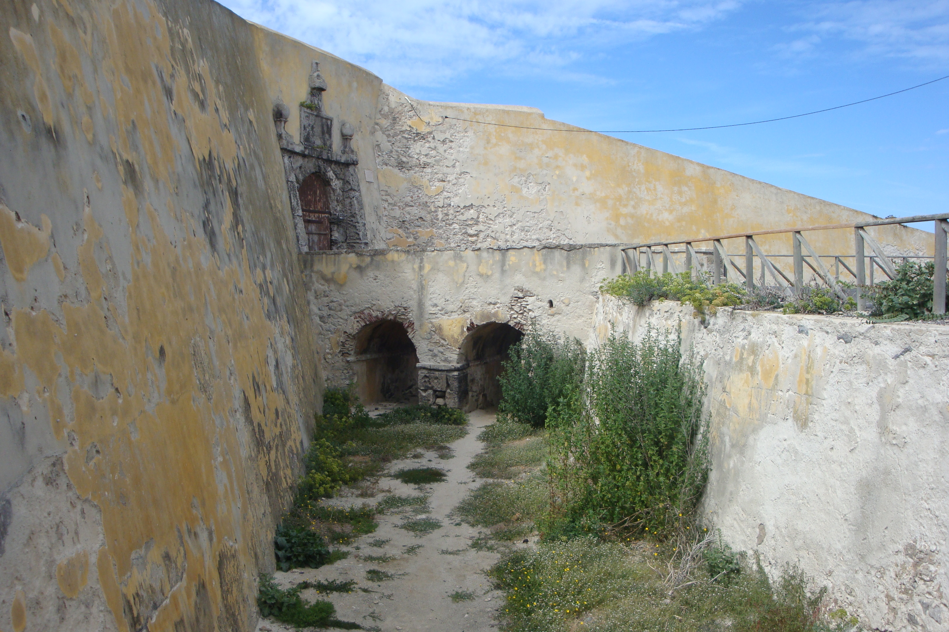 Fosso do Forte da Consolação, concelho de Peniche